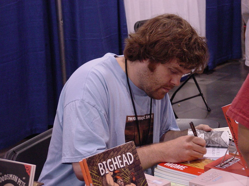 Jeffrey Brown at the Heroes Convention in Charlotte, North Carolina